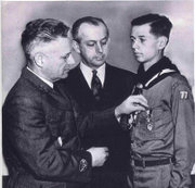 Arthur Eldred (center), the first Eagle Scout, looks on as his son Willard ("Bill", right) received his Eagle award at a ceremony on 27 October 1944.